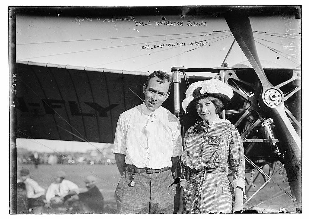 Earle Ovington circa 1913 Bain News Service,, publisher. Earle Ovington & wife [between 1910 and 1915] 1 negative : glass ; 5 x 7 in. or smaller. Notes: Title from unverified data provided by the Bain News Service on the negatives or caption cards. Forms part of: George Grantham Bain Collection (Library of Congress). Subjects: Air pilots Format: Glass negatives. Repository: Library of Congress, Prints and Photographs Division, Washington, D.C. 20540 USA, General information about the Bain Collection is available at Persistent URL: Call Number: LC-B2- 2265-1 Comments